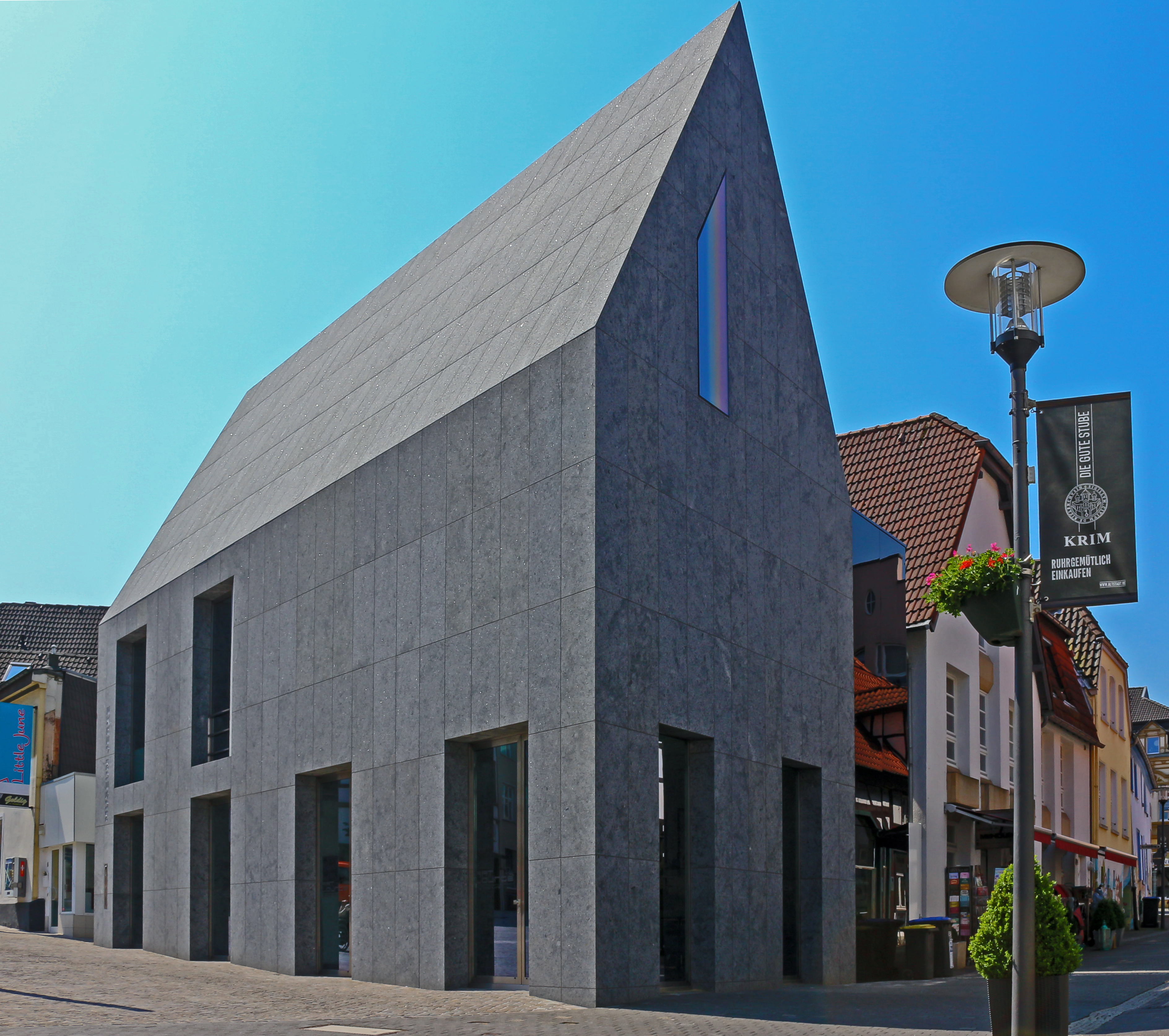 Museum Jerke - Recklinghausen, North Rhine-Westphalia, Germany